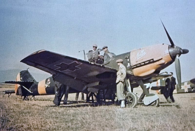 Messerschmitt Bf 109 at Stalingrad